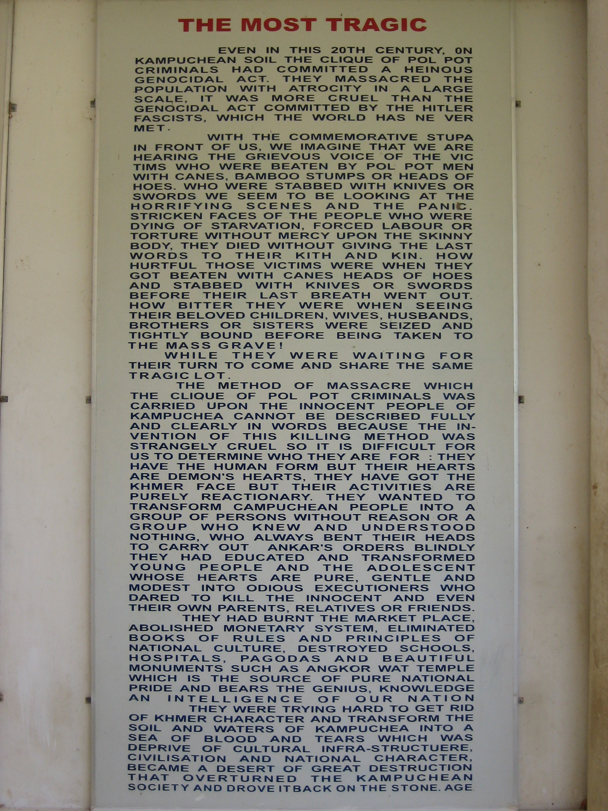 Information about the Killing Fields, near Phnom Penh